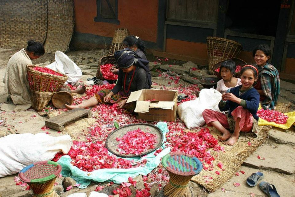 Garland making women